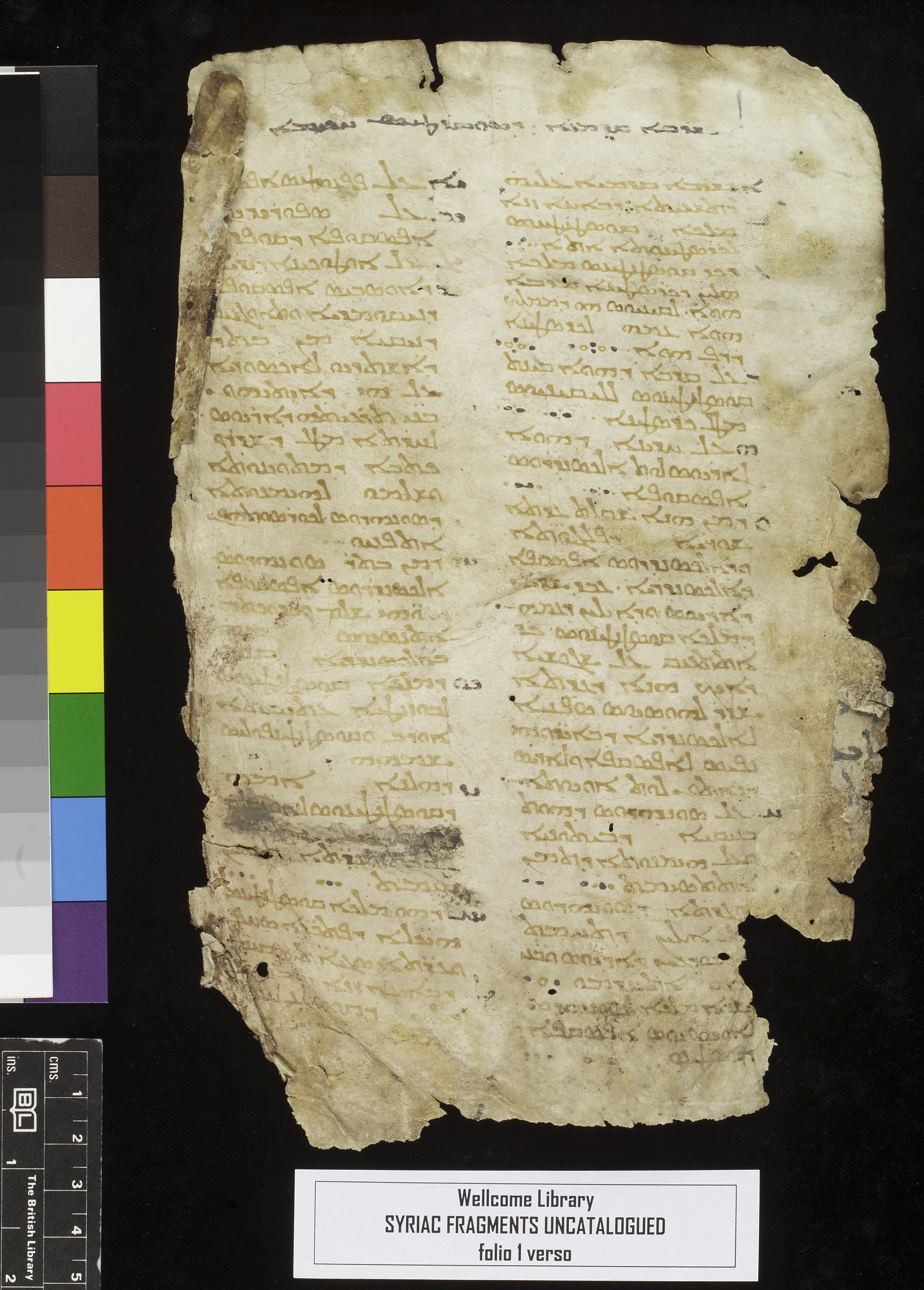 Page from Socrates Scholasticus - The Ecclesiastical History. Begins with the ascension of the Byzantine Emperor Constantine in 306 AD and ends with the reign of Theododsius the Younger [408 - 405 AD] Asian Collection Keywords: Socrates Scholasticus